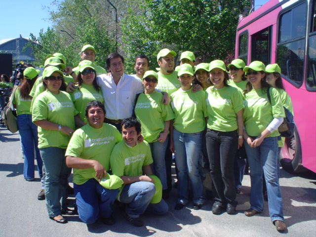 Transantiago Informa